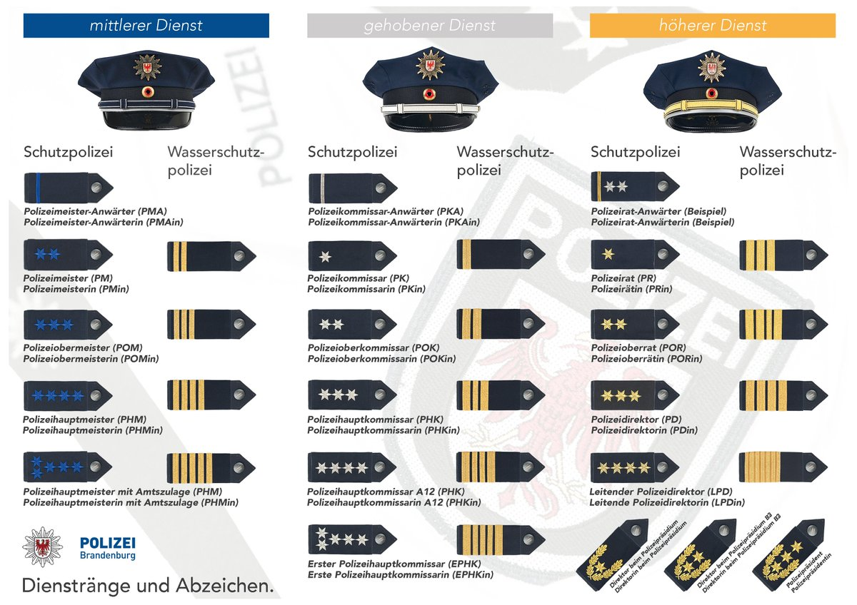 Rank insignia of the Brandenburg State Police